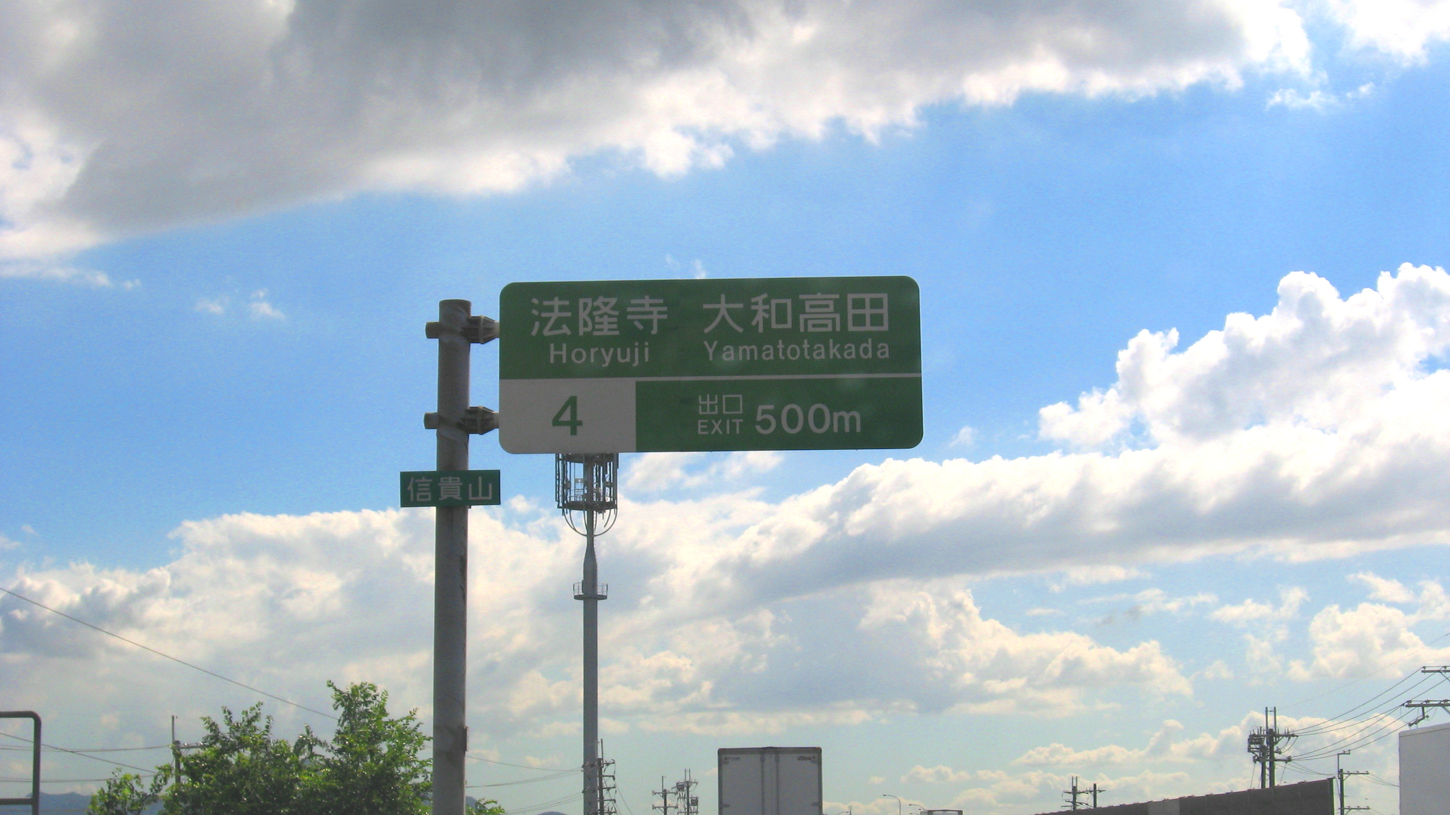 Horyuji IC (for Matsubara)